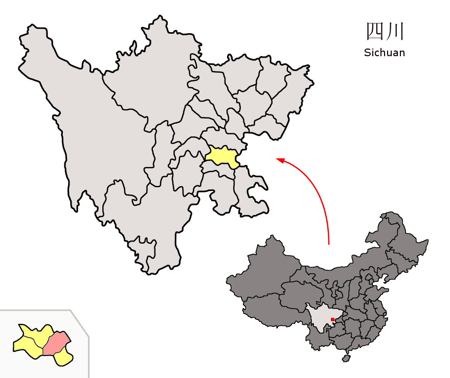 Location of Neijiang City Districts (pink) and Neijiang Prefecture (yellow) within Sichuan province of China Map drawn in october 2007 using various sources, mainly : Sichuan province administrative regions GIS data: 1:1M, County level, 1990 Sichuan Counties map from